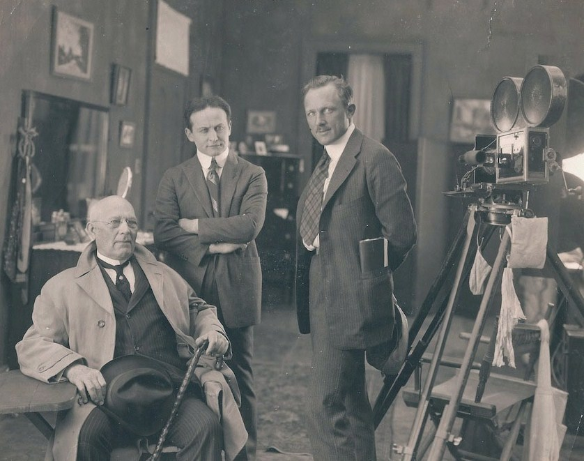 L. to R. : Harry Kellar (visitor), Harry Houdini (actor) & Irvin Willat (director) on the set of The Grim Game - publicity still (cropped)